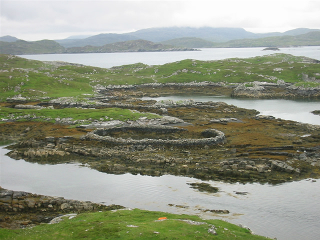 Great Bernera, Outer Hebrides, Scotland. Lobster ponds Huge stone lobster ponds, as viewed from the footpath from Bhalasaigh to Bostadh.